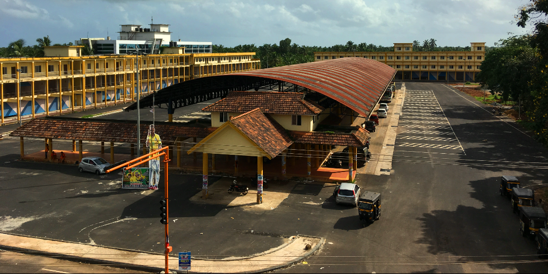 New Bus Stand Kanhangad, Alamipally